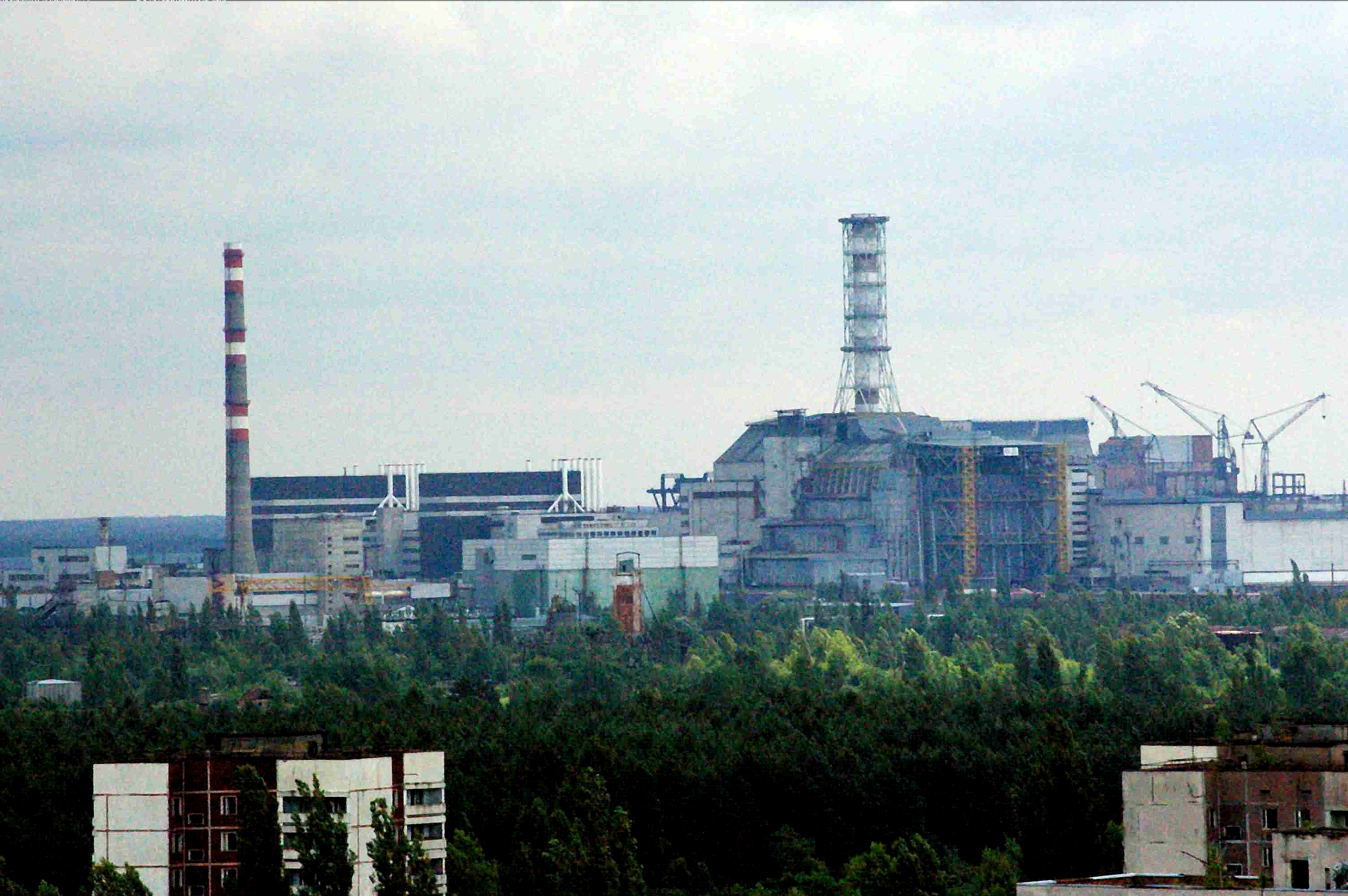 Chernobyl Nuclear Power Plant, view from North-West